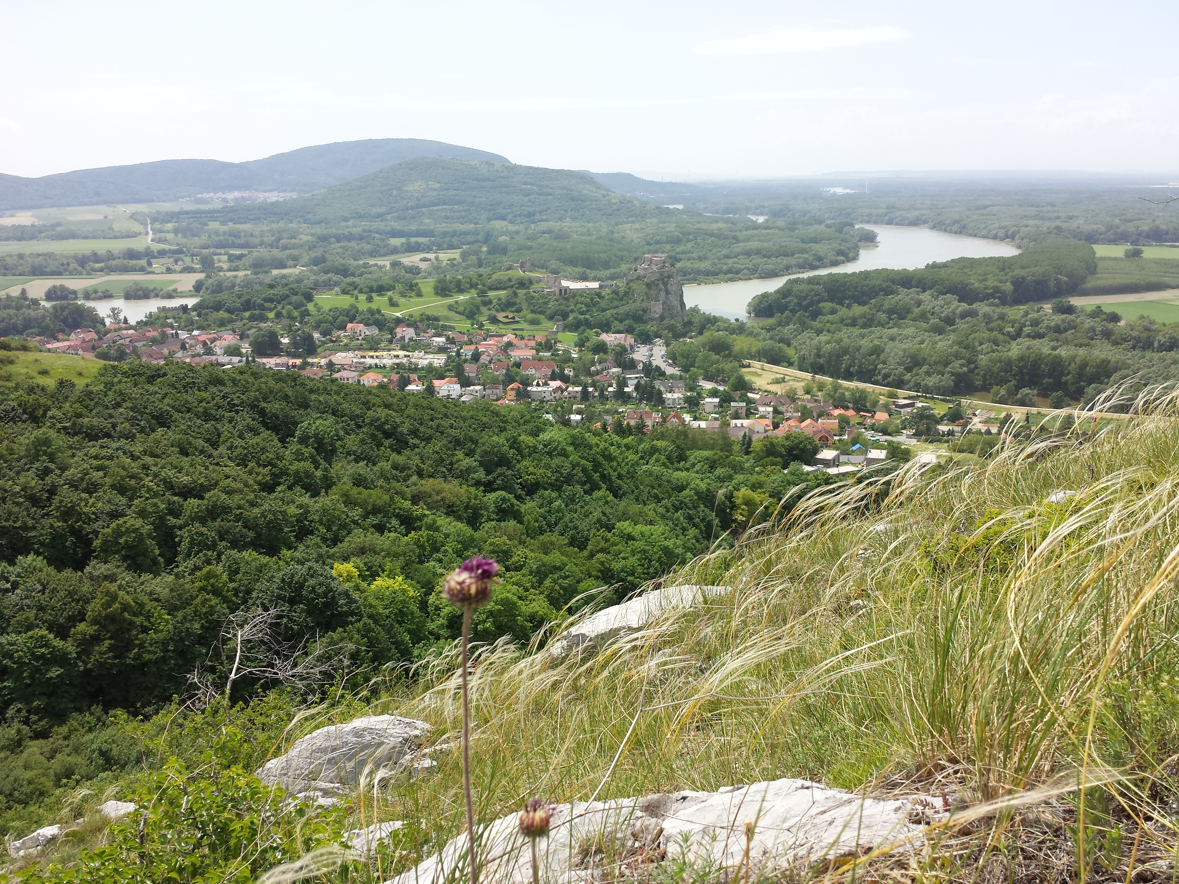 Devínska Kobyla, Bratislava, Slovakia Steppe withStipa pennata agg. View towards Devín castle / Hundsheimer mountains